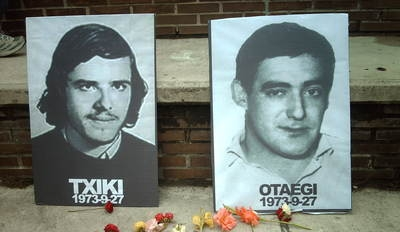 Remembering Txiki and Otaegi.